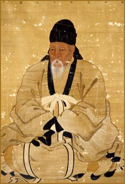 Suam Kwon Sang-ha, Portrait of Suam Kwon Sang-ha, the leading Confucianist of the mid Joseon Dynasty.